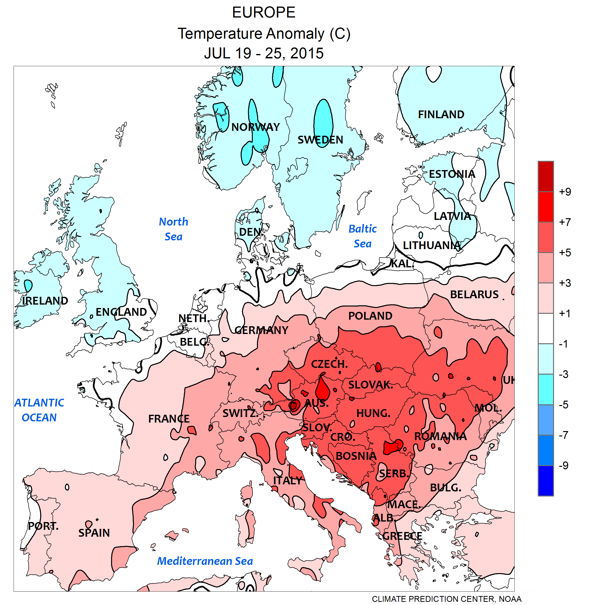 Europe: Temperature anomaly July 19 - 25, 2015, computer generated colours, based on preliminary data